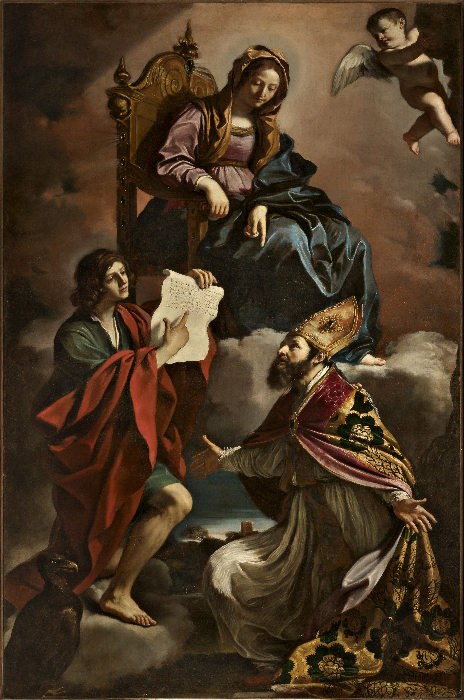 Madonna with Saints John Evangelist and Gregory the Miracle Worker by Giovanni Francesco Barbieri, known as Guercino, 1639